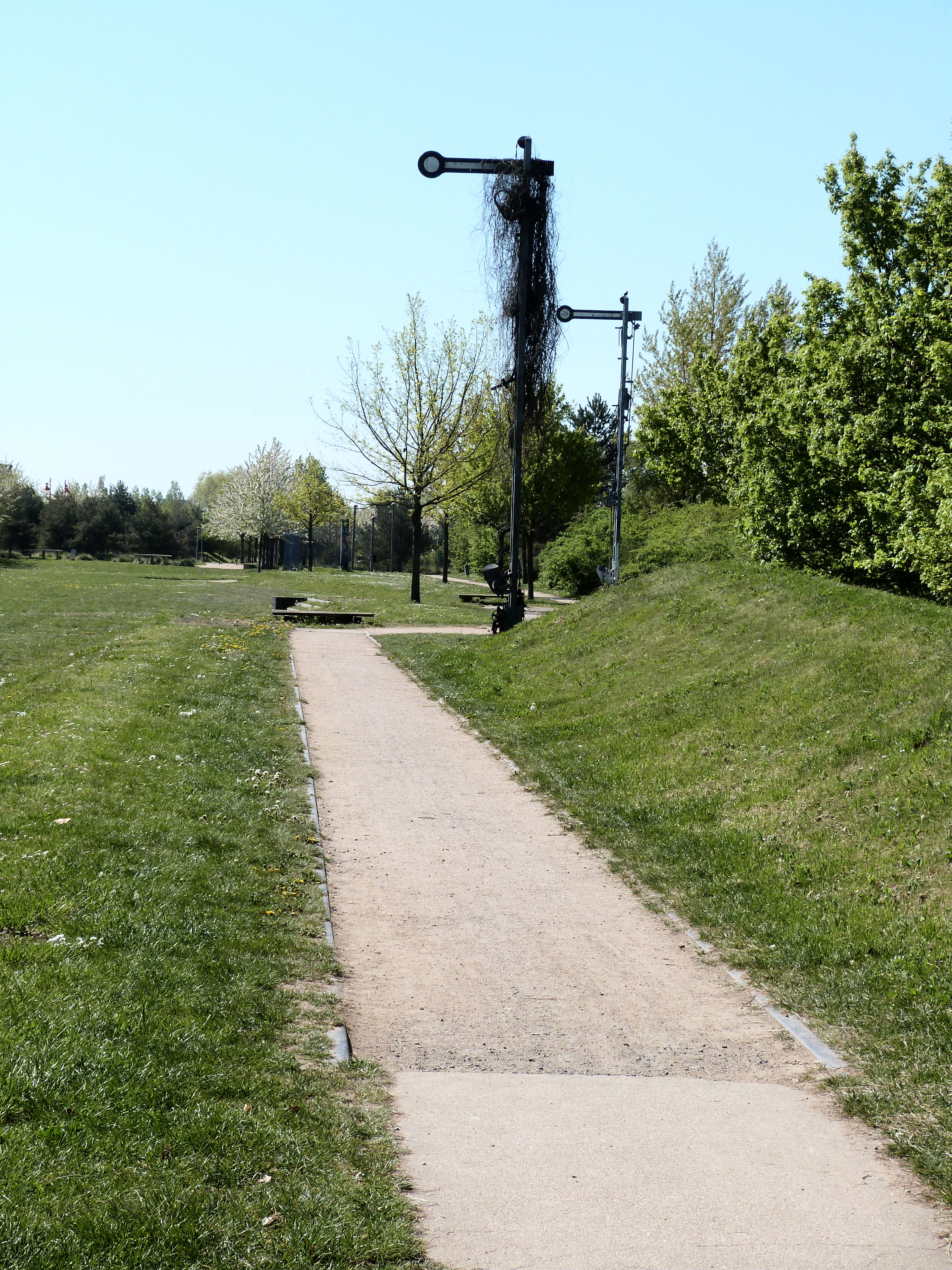 Park Thüringer Bahnhof on the embankment of the former port railway line, Halle (Saale)